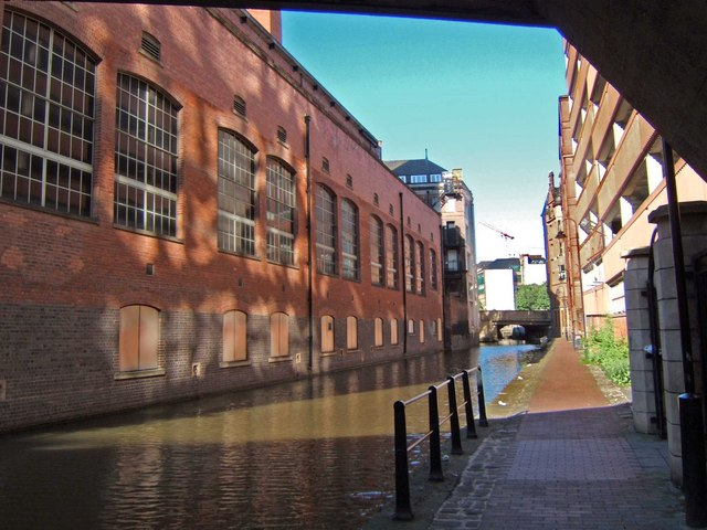 Former Electricity Power Station The Rochdale canal view of a listed building, the former Winser Street electric power station, often known as Bloom Street power station. It was built by the city council and was the second electric power station to be built to supply the city and nearby suburbs. The first was adjacent to it in Dickinson Street. The base of the matching redbrick boiler chimney can just be seen above the centre of the roof. It started to supply power (direct current, DC not AC, alternating current as supplied today) in 1901 and the new municipal electric tram services were big power consumers. It looks designed so that coal could be directly off-loaded from barges into the power station bunkers. The bridge crossing the canal in the distance carries Princess Street. Above the photographer is an access bridge to the power station.